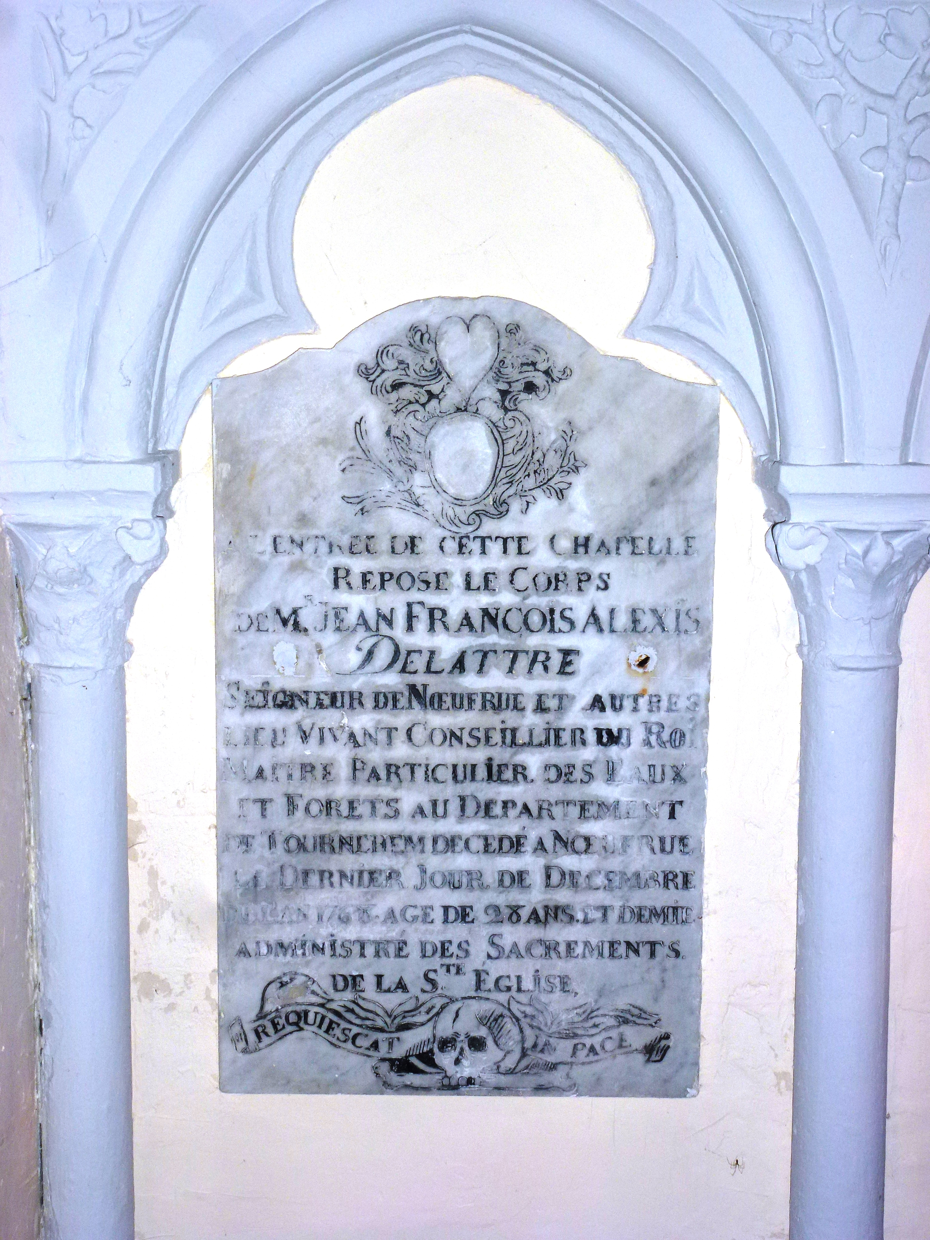 Recques-sur-Hem (Pas-de-Calais) dalle funeraire de Jacques Delattre, seigneur de Noeufrue